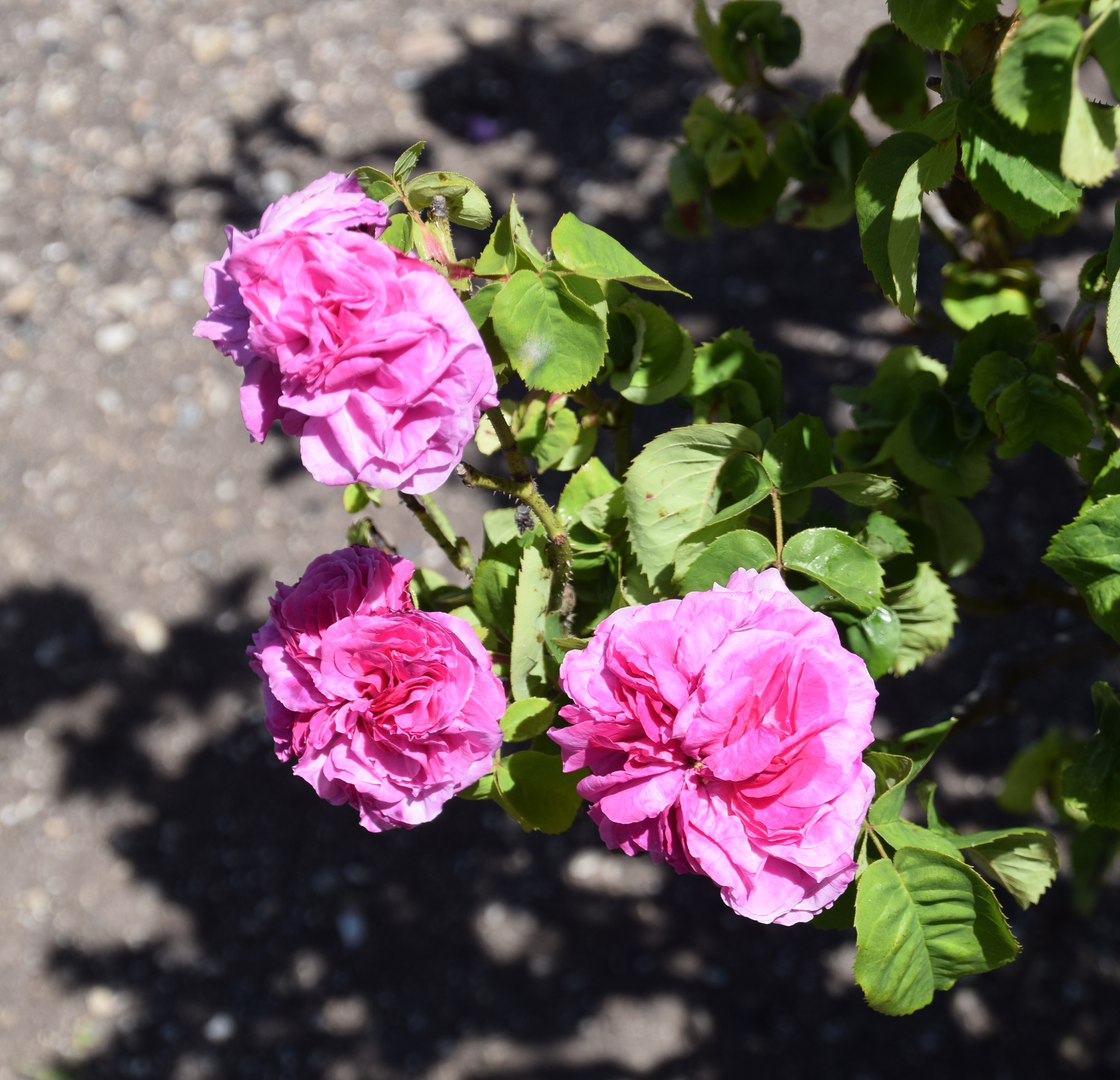 Rosa 'Baronne Prévost' in Dunedin Botanic Garden, Dunedin, New Zealand